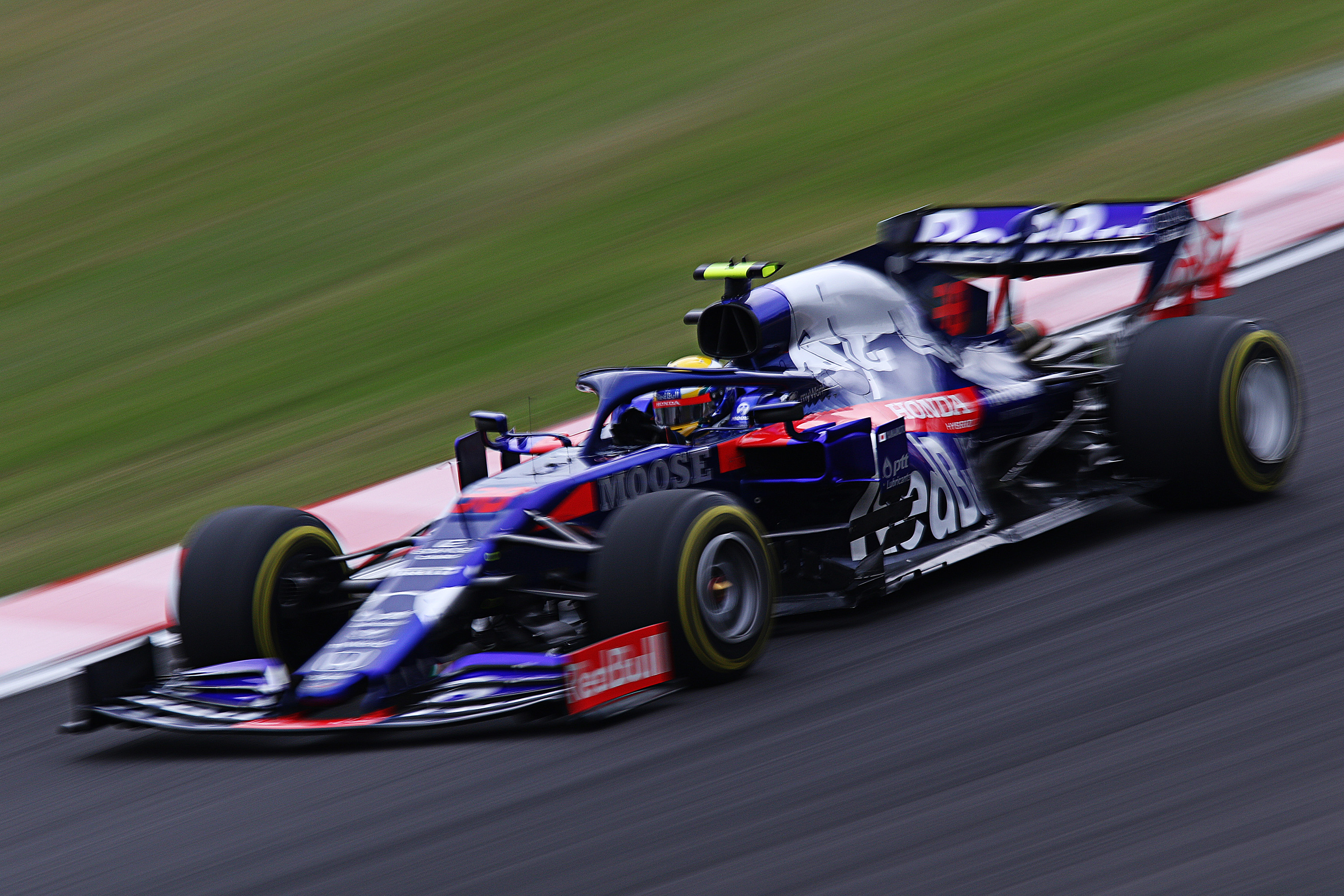 2019.10.11 F1 Rd.17 JapaneseGP FP1 Suzuka Circuit Red Bull Toro Rosso Honda 38 Naoki Yamamoto 山本尚貴 [7D2_4076ks]